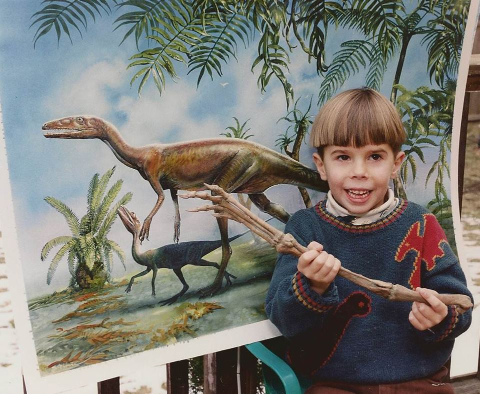 Picture of Justin Hofmann holding the right hindlimb of his self-named dinosaur, Nedcolbertia justinhofmanni.